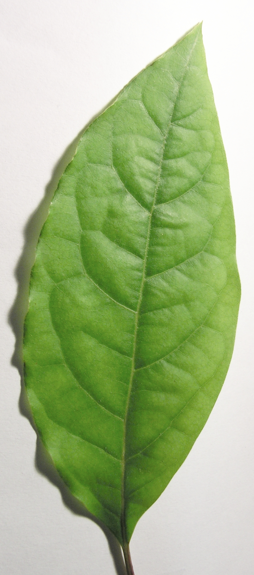 The leaf of Persea americana.